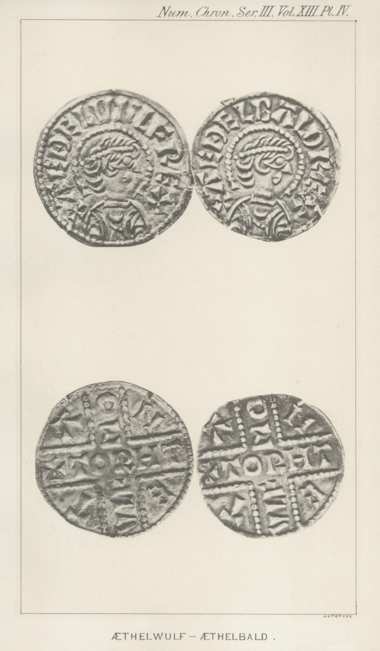 L. A Lawrence included these coins in an article about the coinage of King Æthelbald of Wessex, but he later accepted that they are fakes. (Grierson and Blackburn, Medieval European Coinage, 1986, p. 337). Downloaded by Dudley Miles from L. A. Lawrence, 'Coinage of Æthelbald', The Numismatic Chronicle, 1893, p. 40